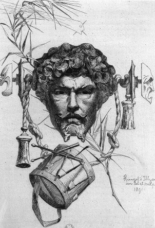 French poet, novelist and dramatist Jean Richepin (1848-1926) by Jean-Désiré Ringel d'Illzach (1847-1916)